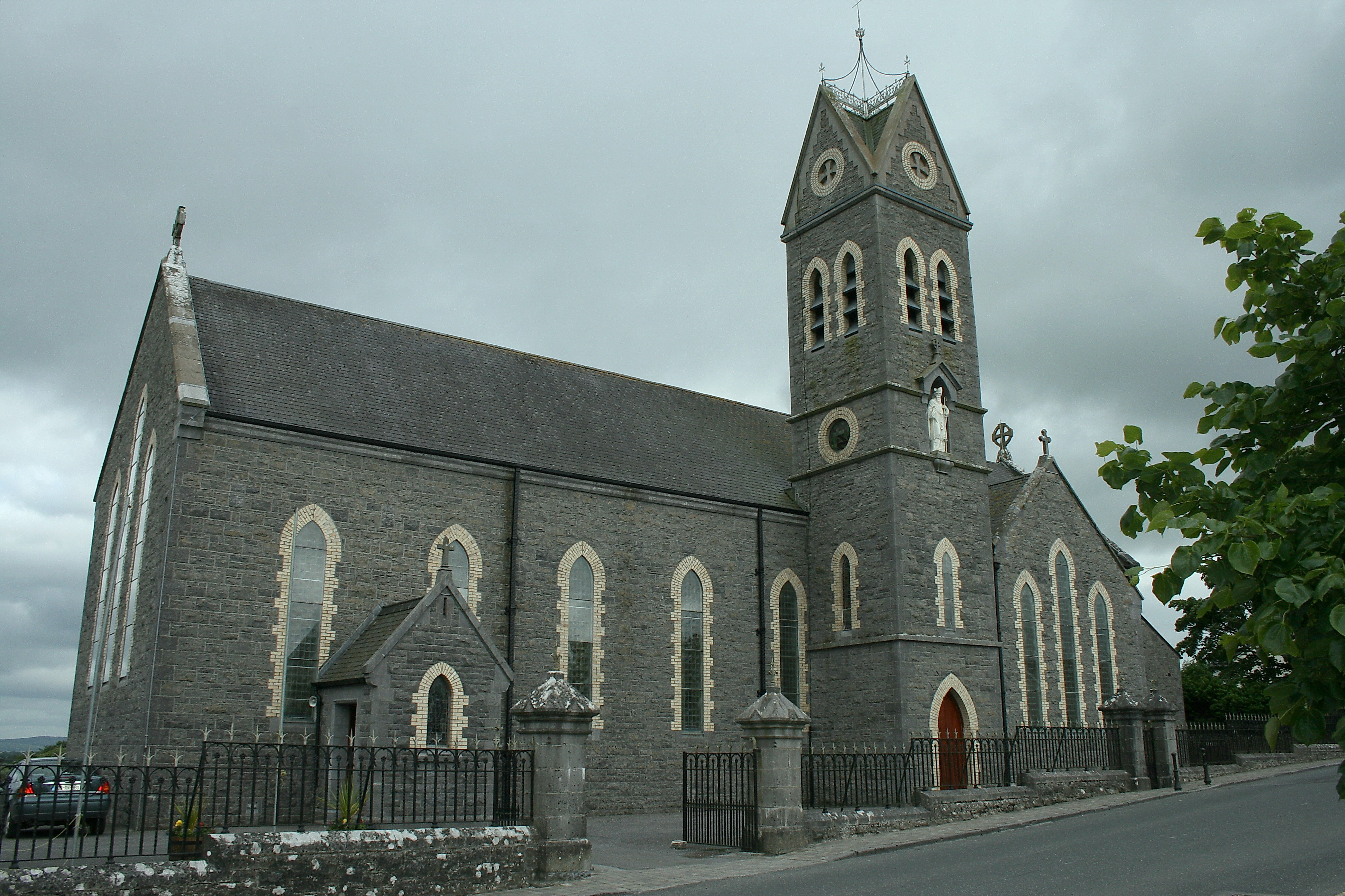 Church in Elphin, County Roscommon, Ireland